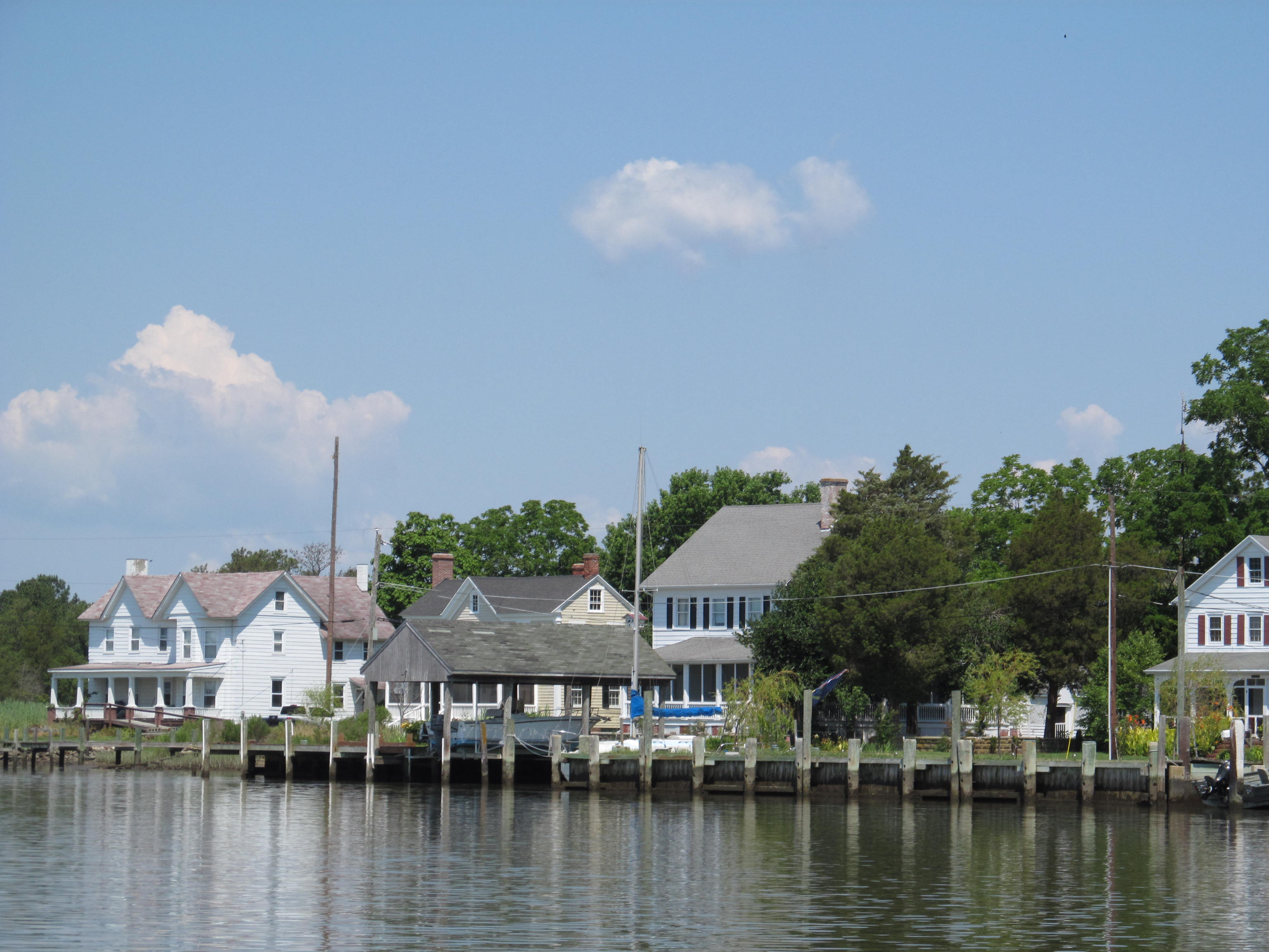 Homes along the shoreline in the Whitehaven Historic District in Whitehaven, Maryland.